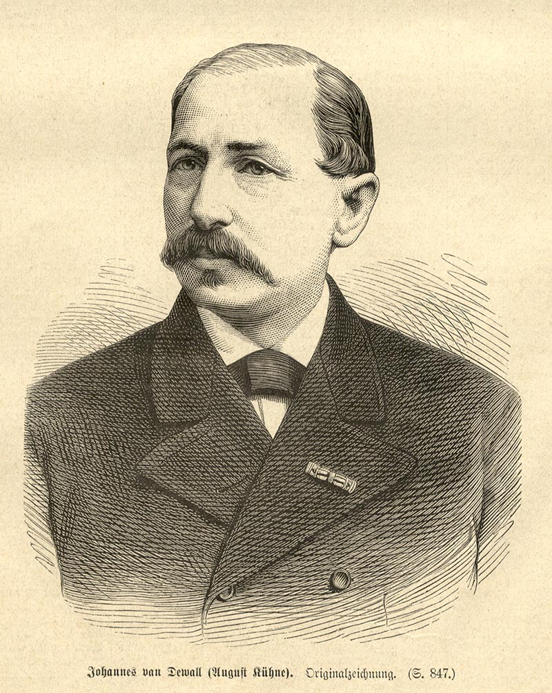 Johannes von Dewall (1829-1883), Pseudonym of August Kühne, german author wood engraving on the front of the "Allgemeine Illustrierte Zeitung" of 1878